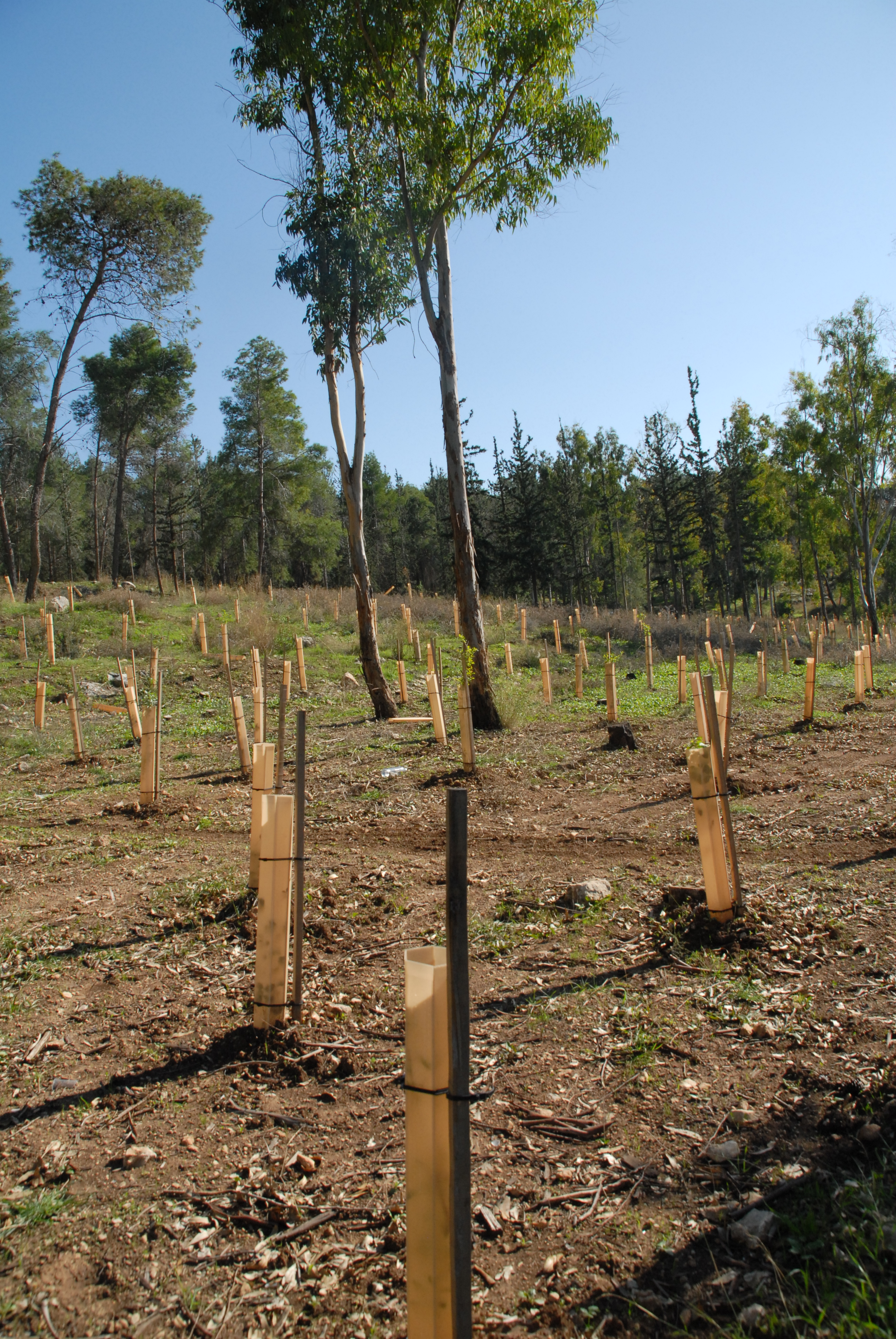 Plants of Israel